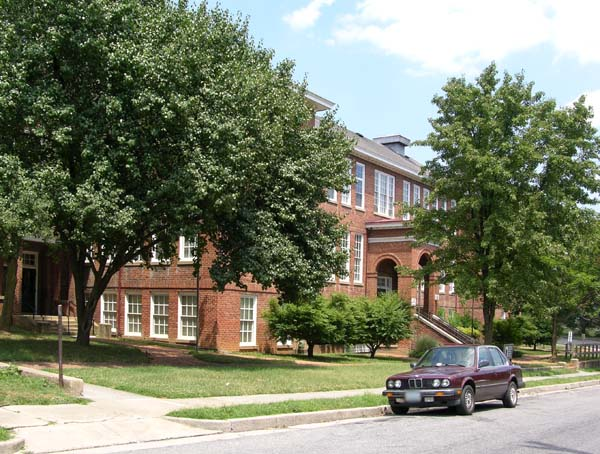 Harrison School listed on the National Register of Historic Places in Harrison, Roanoke, Virginia, USA